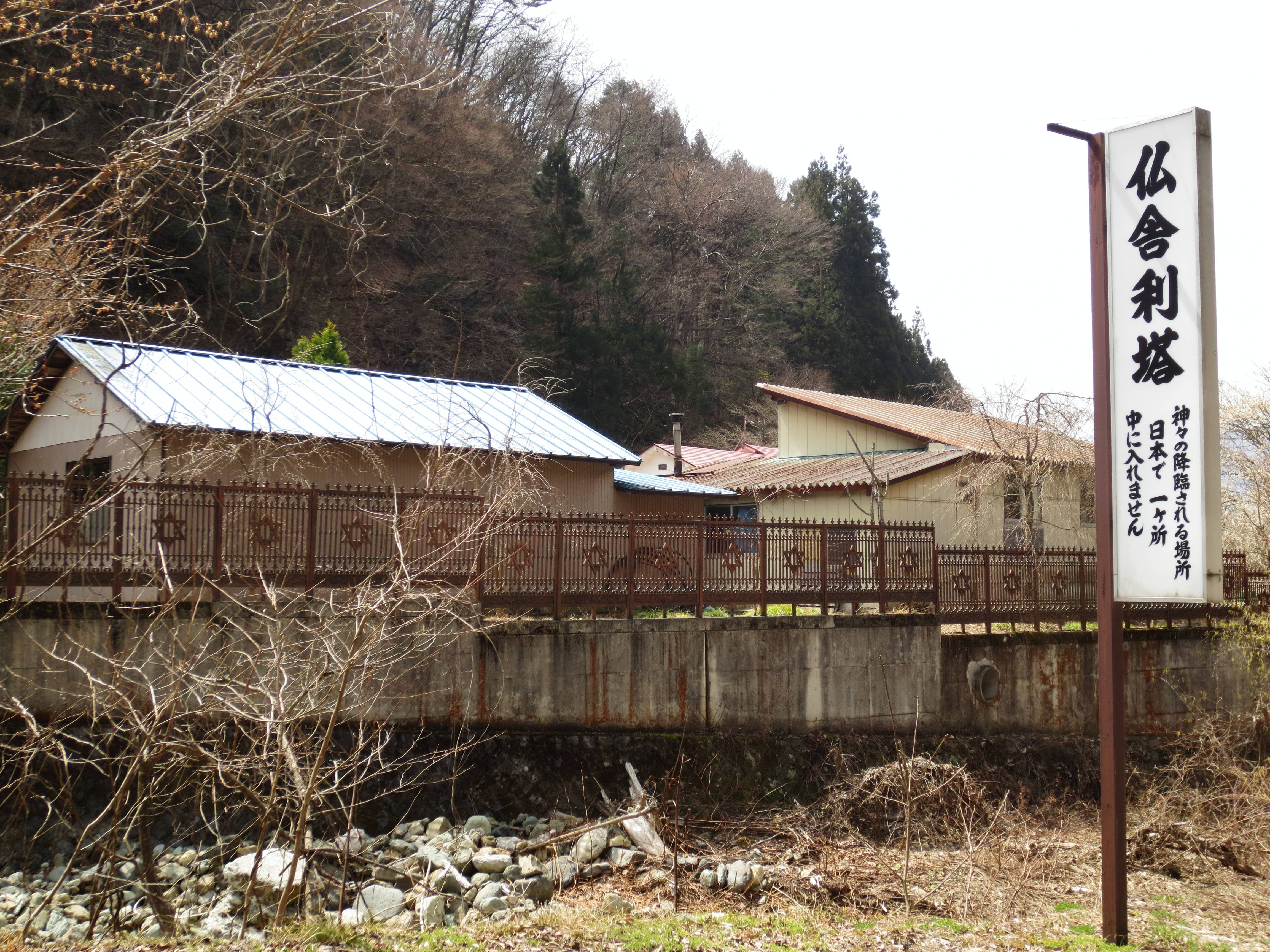 Namezawa Onsen.